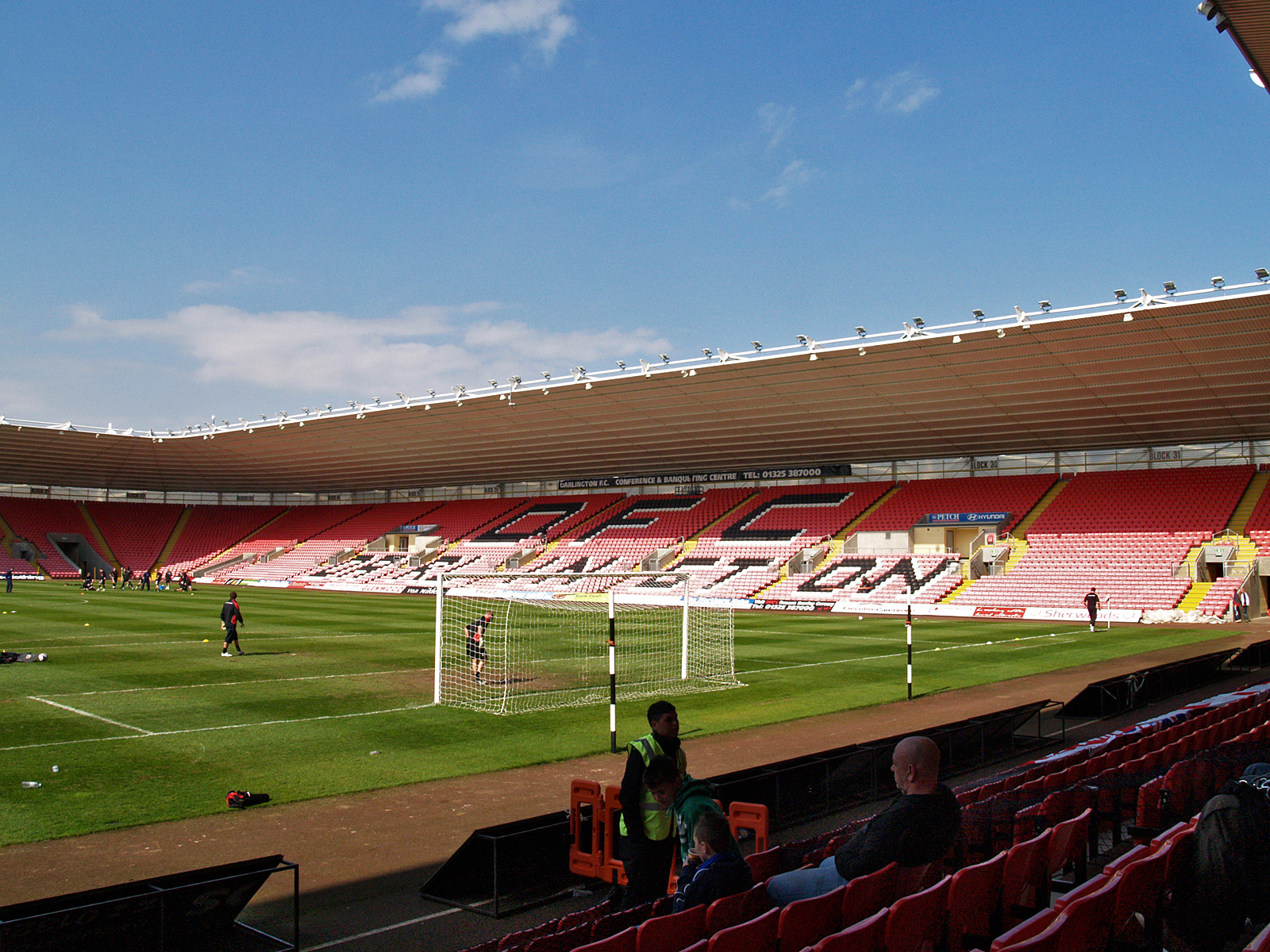 The Darlington Arena, taken on Monday the 13th of April 2009.